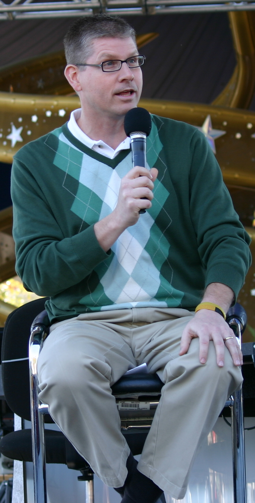 Inside SportsCenter at the Sorcerer Hat Stage with John Anderson during ESPN the Weekend, February 26, 2010.